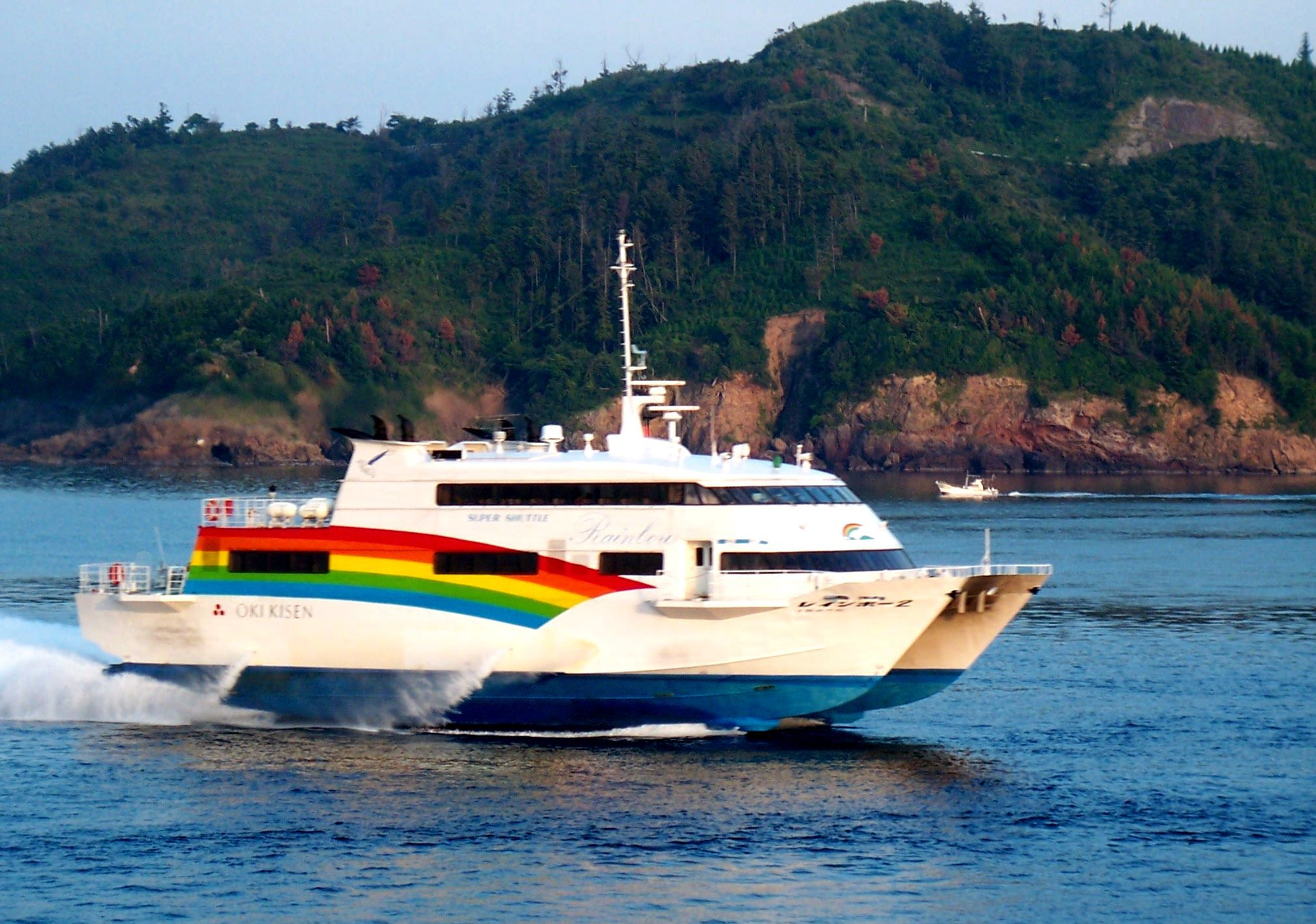 Rainbow 2, Oki Kisen IMO number: 9178812 Callsign: JK5345